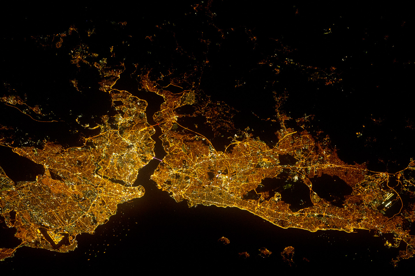 Istanbul, Turkey at Night Most of Istanbul’s Asian suburbs (image right) appear in this night view from the International Space Station, but only about half the area of the city on the European side (image left) can be seen. The margins of the metropolitan area are clearly visible at night, more so than in daylight images. The Bosporus strait (also spelled Bosphorus) (image center left) famously separates the two halves of the city, and links the small Sea of Marmara (and the Mediterranean Sea to its south) to the Black Sea (indistinguishable in this night view, top right). The strait is 31 km long, most of which is visible in this view. The Bosporus is a very busy waterway, with larger ships passing to and from the Black Sea competing with numerous ferries that cross between the two halves of the city. Apart from the dark Sea of Marmara (lower margin of the image), the other large dark areas are all wooded hills which provide open spaces for the densely populated city of Istanbul – one of the largest in Europe with 13.5 million inhabitants. The old city occupies the prominent point at the entrance to the strait. Major traffic arteries are the brighter lines crossing the metropolitan area, and also mark all the shorelines. The First Bosporus Bridge and Second Bridge (also known as the Fatih Sultan Mehmet Bridge) can be seen spanning the strait. The brilliant lights of both international airports serving the region also stand out at image lower left and image lower right.